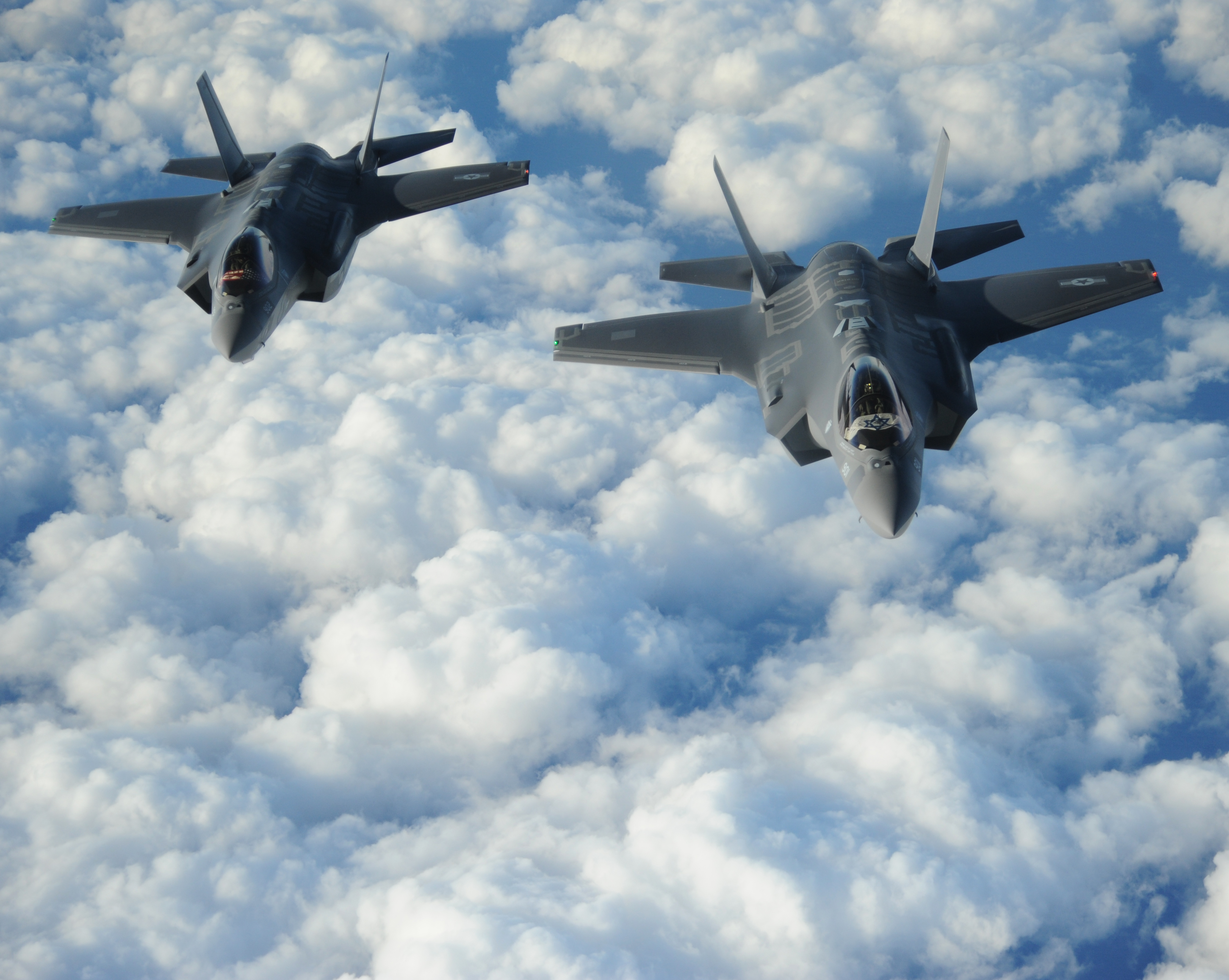 Two Israeli F-35 “Adirs” fly in formation and display the U.S. and Israeli flags after receiving fuel from a Tennessee Air National Guard KC-135, Dec, 6, 2016. The U.S. and Israel have a military relationship built on trust developed through decades of cooperation. (U.S. Air Force photo by 1st Lt. Erik D. Anthony)